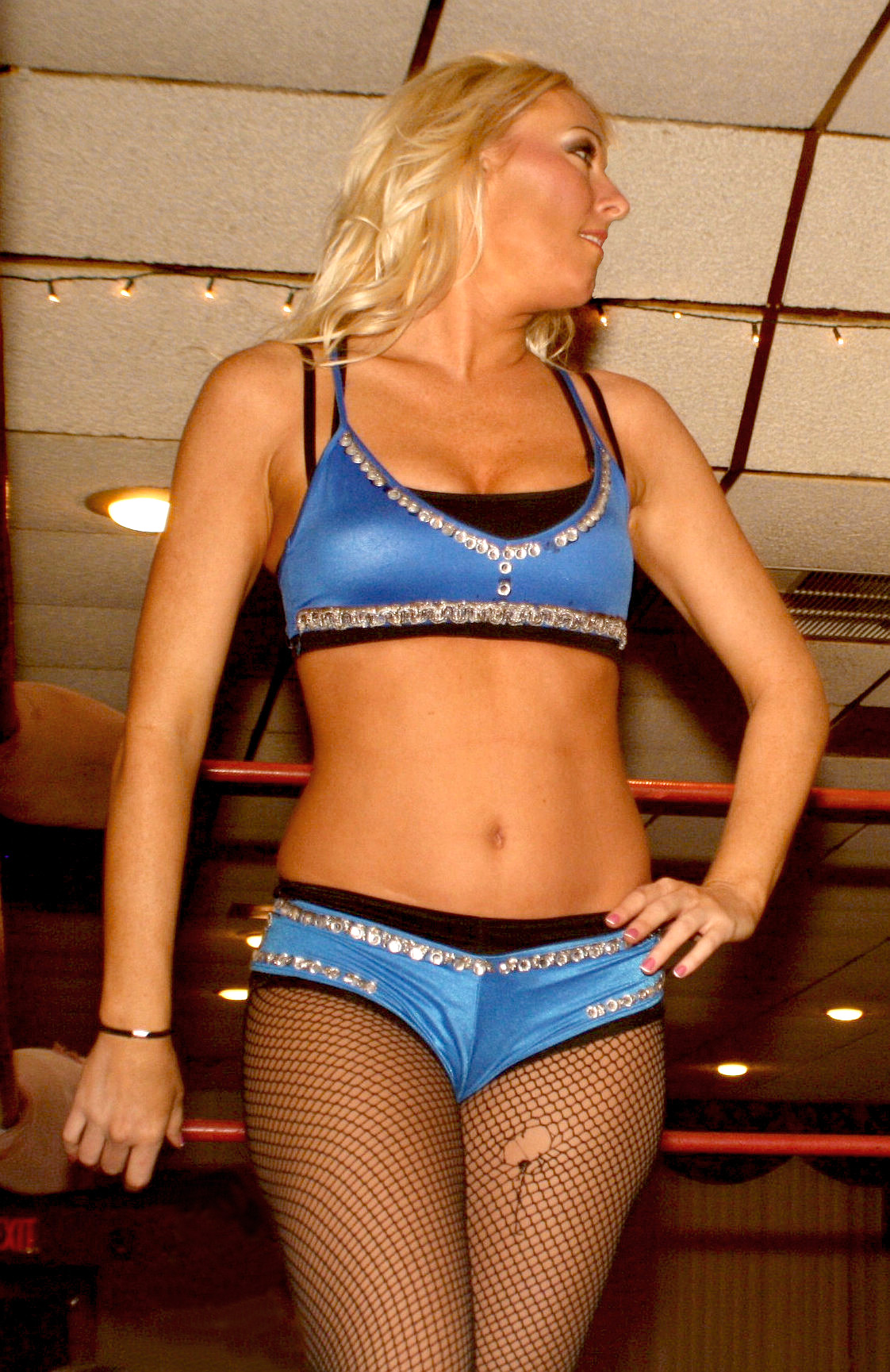 Professional wrestler Amber O'Neal at a Women Superstars Uncensored event in Neptune on April 3, 2010.